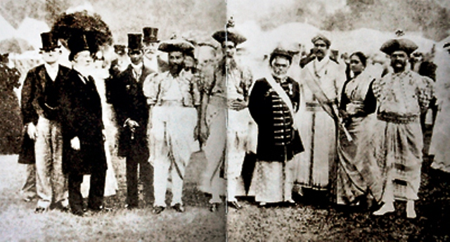 Ceylonese representatives at the Buckingham Palace garden party for Queen Victoria’s Diamond Jubilee, 1897. The group from Ceylon are E.R. Gooneratne, Panabokke Dissava, Nugawela R.M., Kobbekaduwa R.M, Sir Ponnambalam Ramanathan and Lady Ramanathan.